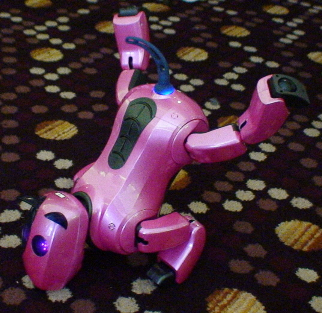 Genibo robot from Dasarobot, showing how to do a headstand